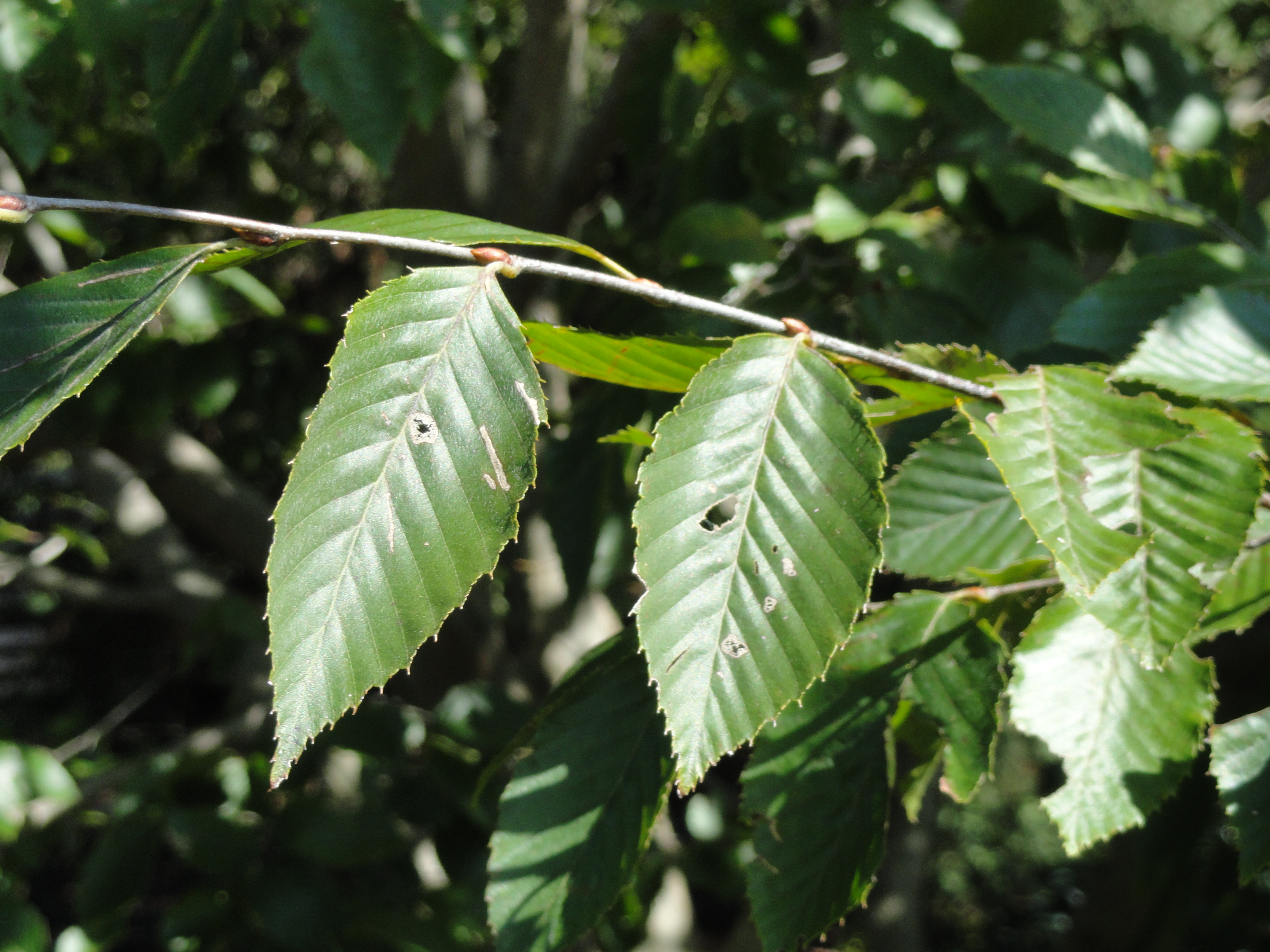 Carpinus turczaninovii specimen in the J. C. Raulston Arboretum (North Carolina State University), 4415 Beryl Road, Raleigh, North Carolina, USA.